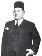 Ahmed Maher Pasha